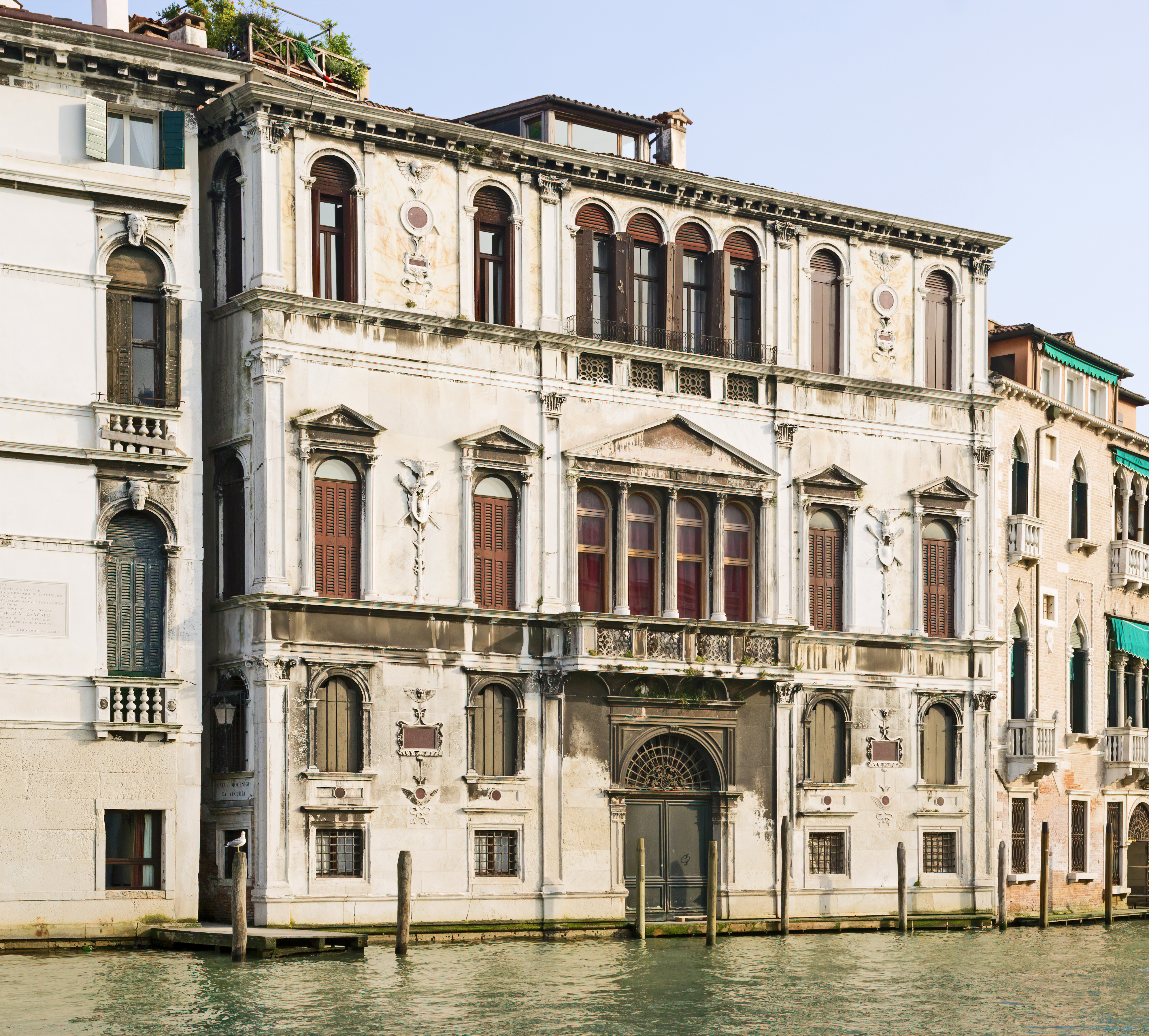 Palace Contarini delle Figure Venice, facade on the Grand Canal.